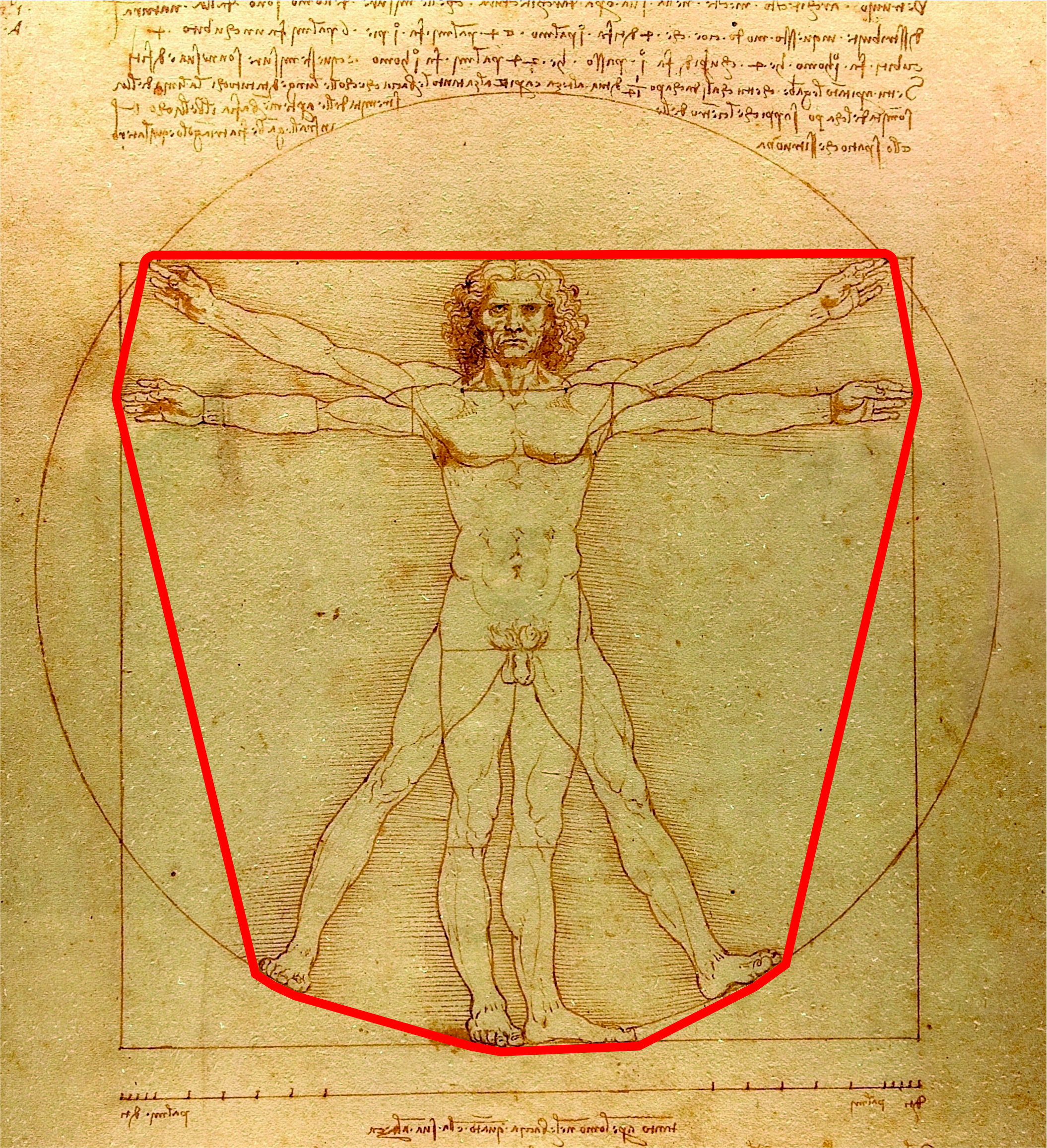 Illustration of the the term "convex hull". The region bounded by the red line is the convex hull of the two human figures drawn by Leonardo da Vinchi.